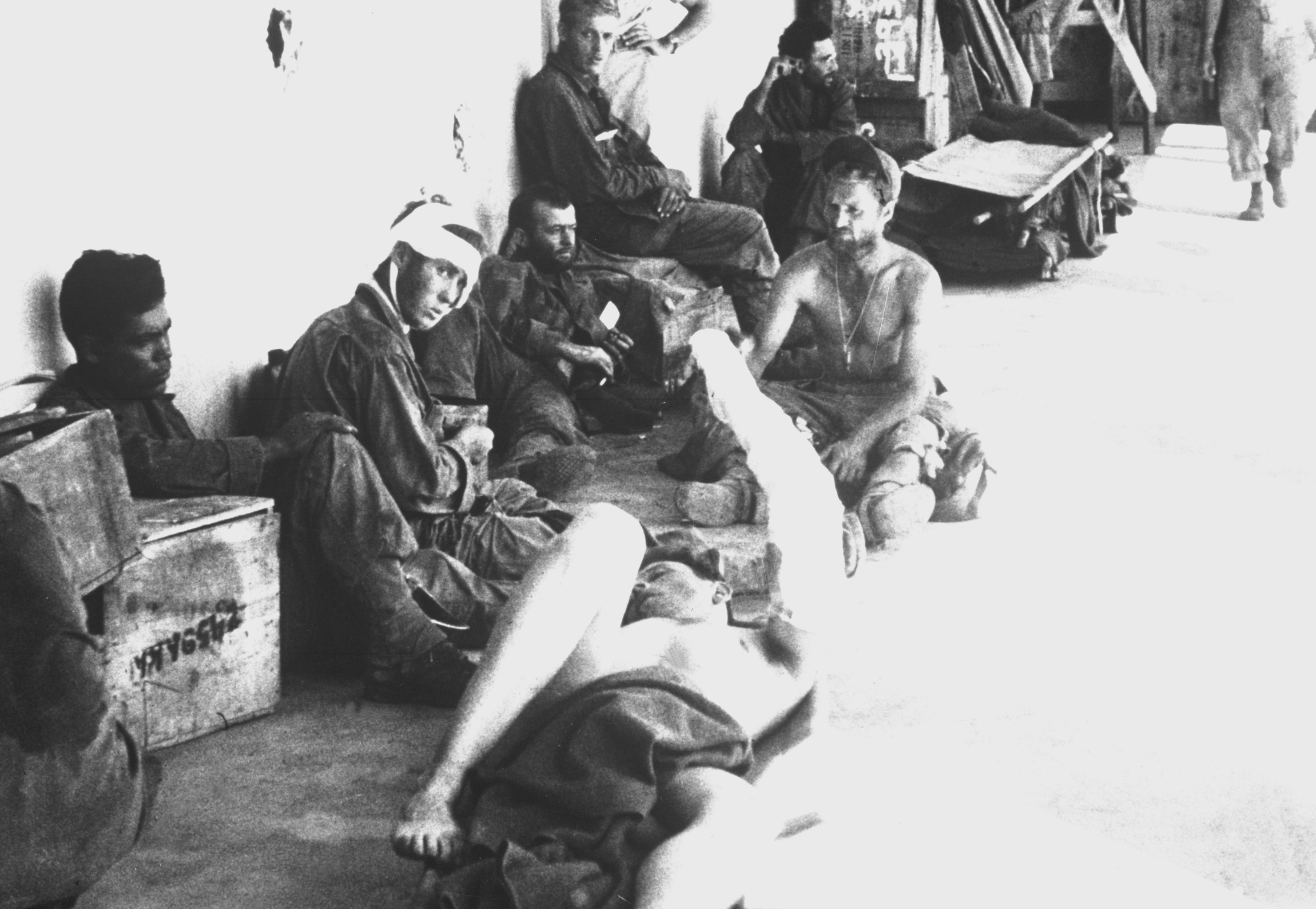 Sickly former Cabanatuan POWs in makeshift hospital after raid.